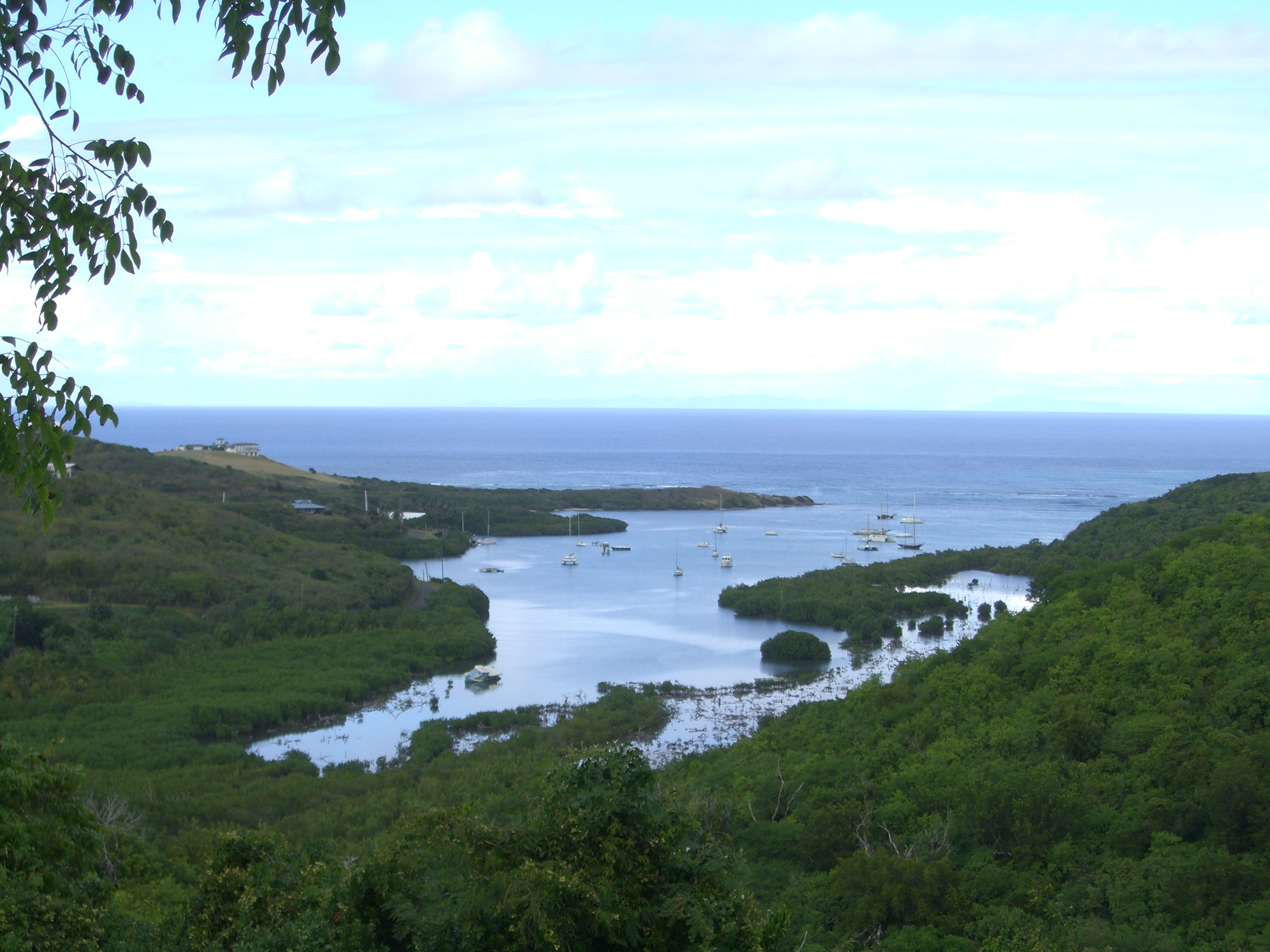 Salt River at St. Croix, USVI